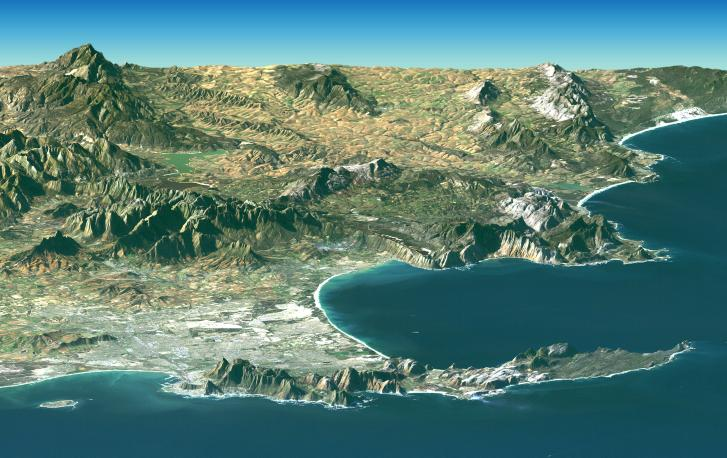 Cape Town and the Cape of Good Hope in South Africa, appear in the foreground of this perspective view generated from a Landsat satellite image and elevation data from the Shuttle Radar Topography Mission (SRTM). The city center is located at Table Bay (at the lower left), adjacent to Table Mountain, a 1,086-meter (3,563-foot) tall sandstone and granite natural landmark.